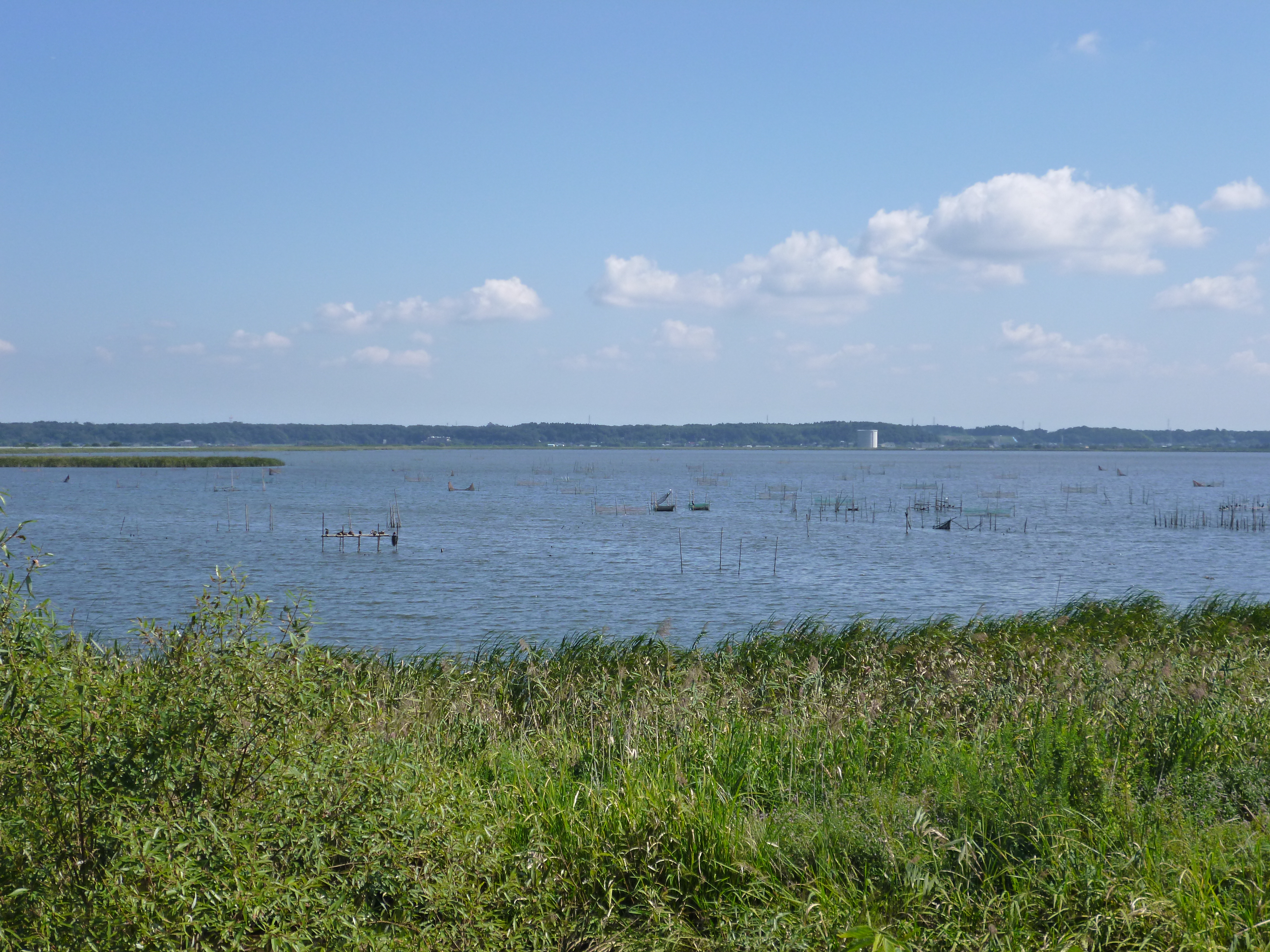 Lake Inba in Chiba Prefecture, Japan. A view from Inzai City.